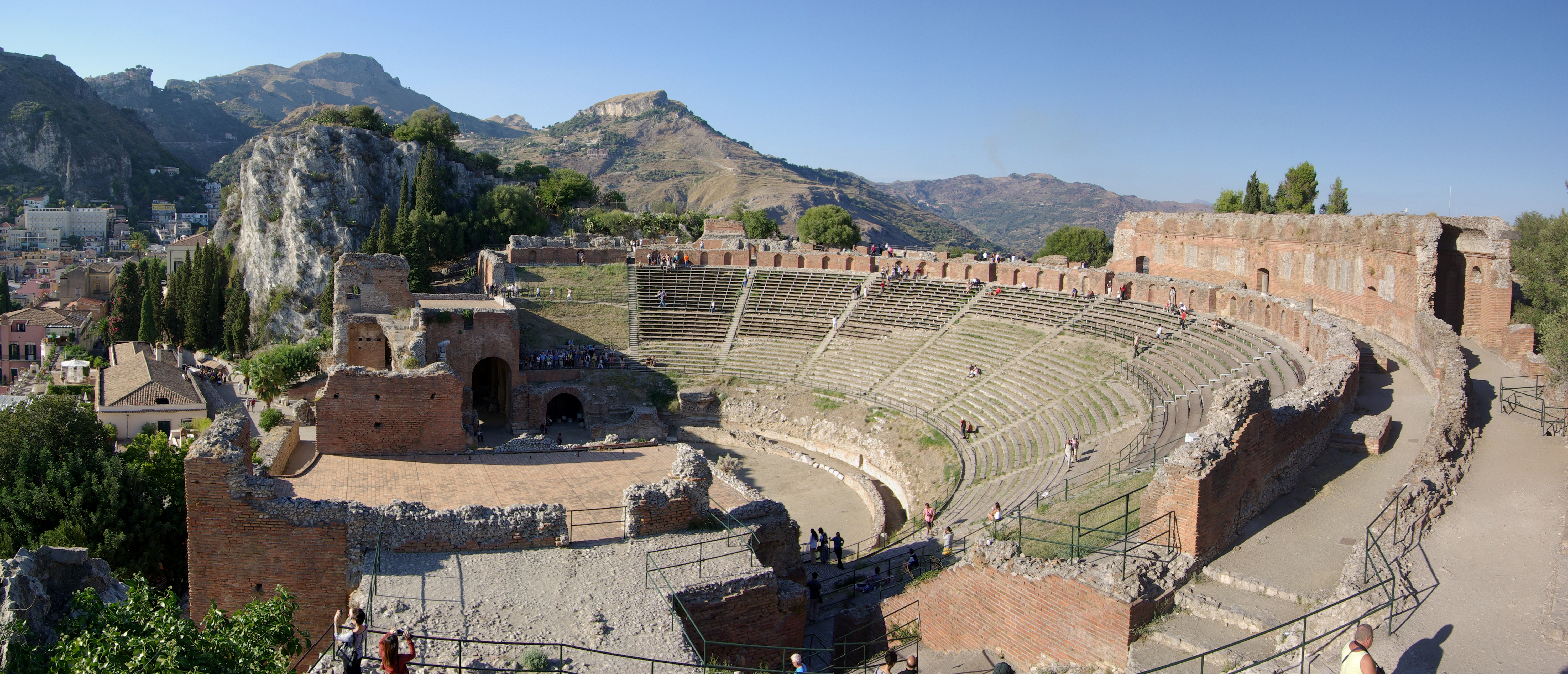 Italy, Sicily, Taormina, ancient theatre